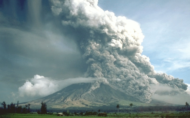 Pyroclastic flows descend the south-eastern flank of Mayon Volcano, Philippines, 1984. Maximum height of the eruption column was 15 km above sea level, and volcanic ash fell within about 50 km toward the west. There were no casualties from the 1984 eruption because more than 73,000 people evacuated the danger zones as recommended by scientists of the Philippine Institute of Volcanology and Seismology.